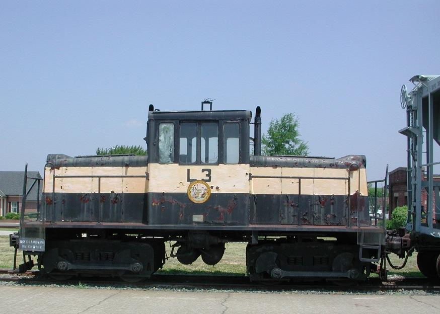 NCPR L3 is a GE 45-ton switcher at the North Carolina Transportation Museum in Spencer. Photo by M. W. Grimes all rights released.